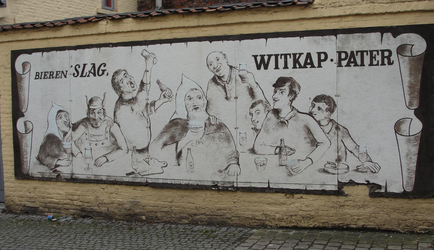 Advertisement for Slaghmuylder Brewery Beers in Ninove, Belgium